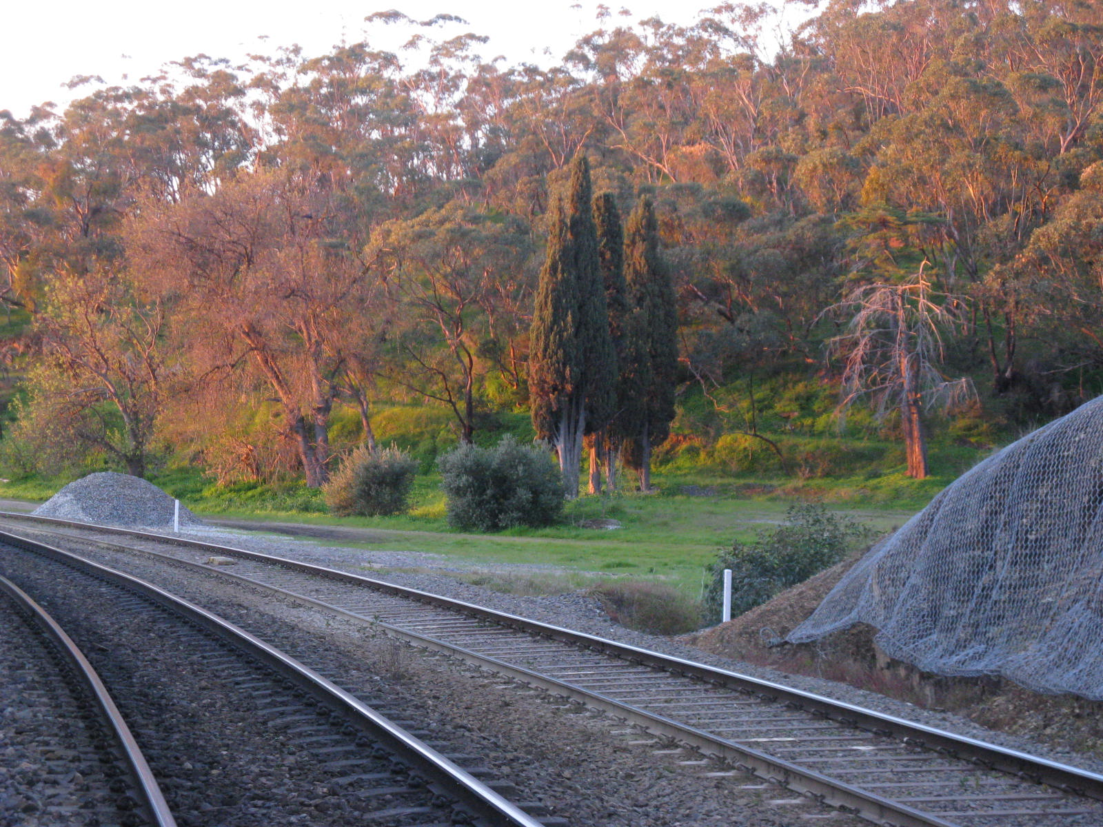 Site of demolished Sleeps Hill railway station looking north, Winter 2008.